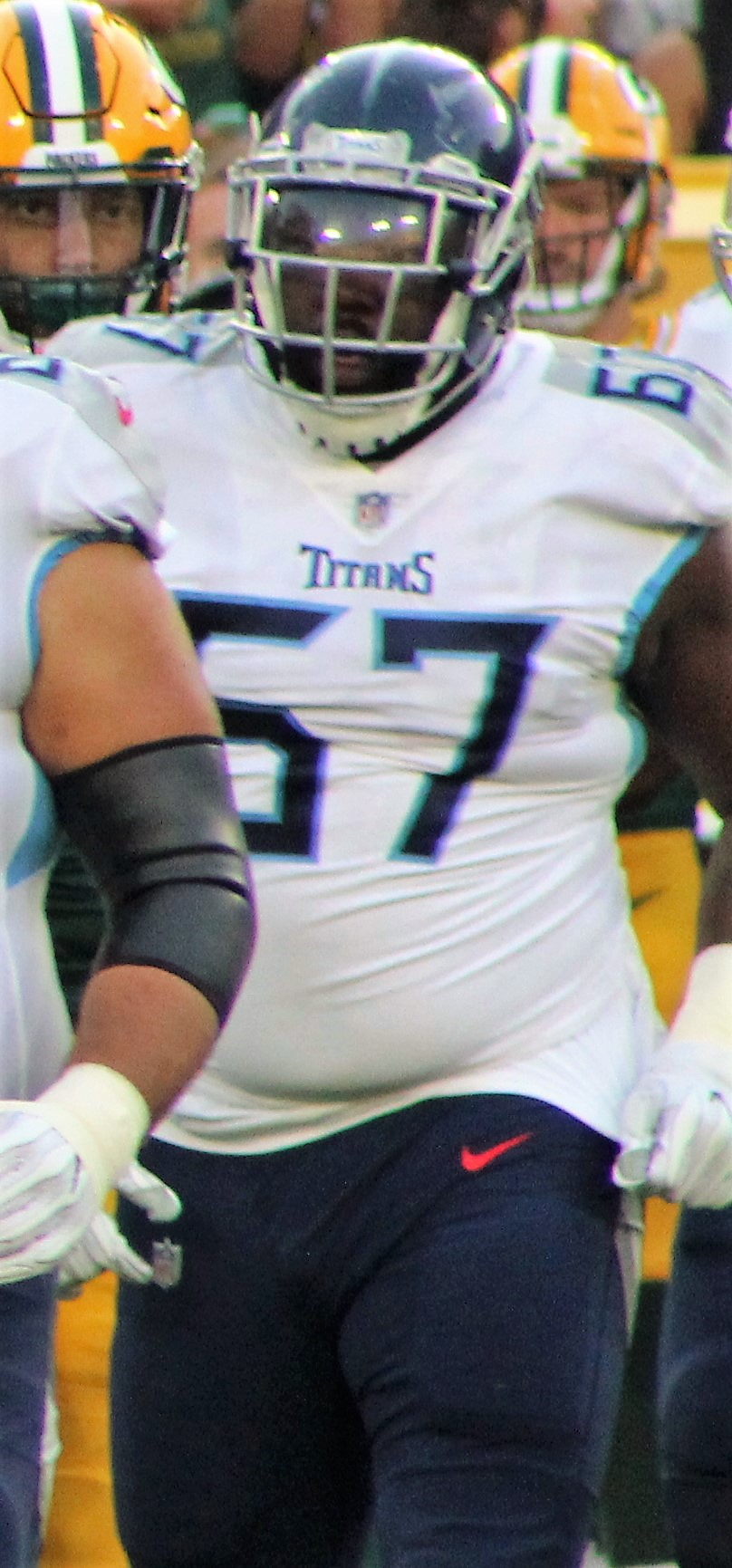 Quinton Spain, Tennessee Titans at Green Bay Packers (Preseason), August 9, 2018